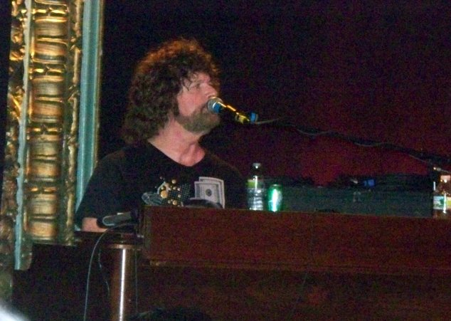 The Vanilla Fudge-1960s Psychedelic Band; photo is of Mark Stein of The Vanilla Fudge, known for their 1967 hit"You Keep Me Hanging On": Mark Stein-keyboards, vocals; Vince Martell-guitar, vocals; Carmine Appice-drums; Pete Bremy-replacing original bassist Tim Bogert who is temporarily not touring with them. Performed at the Regent Theater in Arlington, Massachusetts on March 26, 2011.